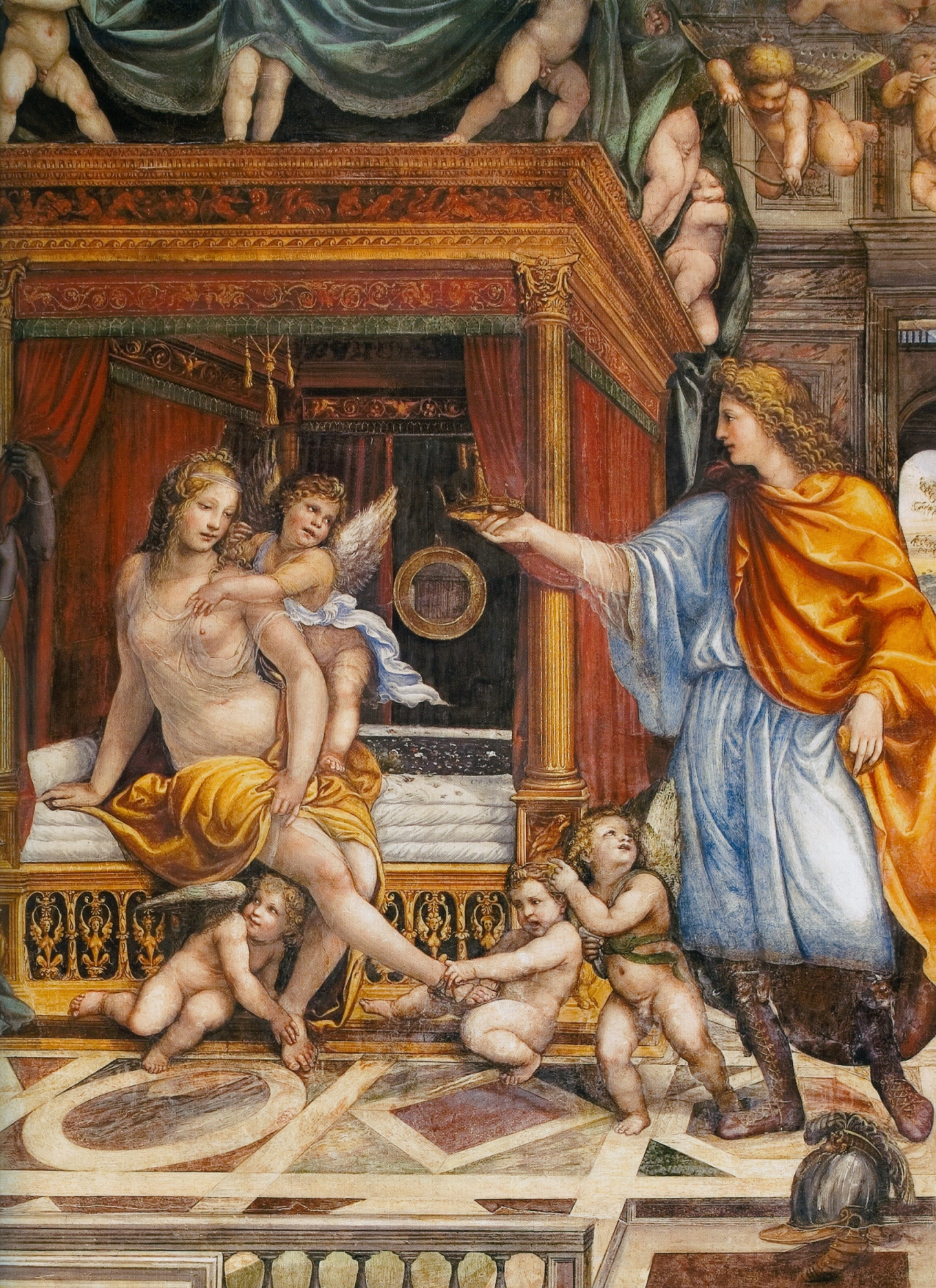 Marriage of Alexander and Roxanadetail